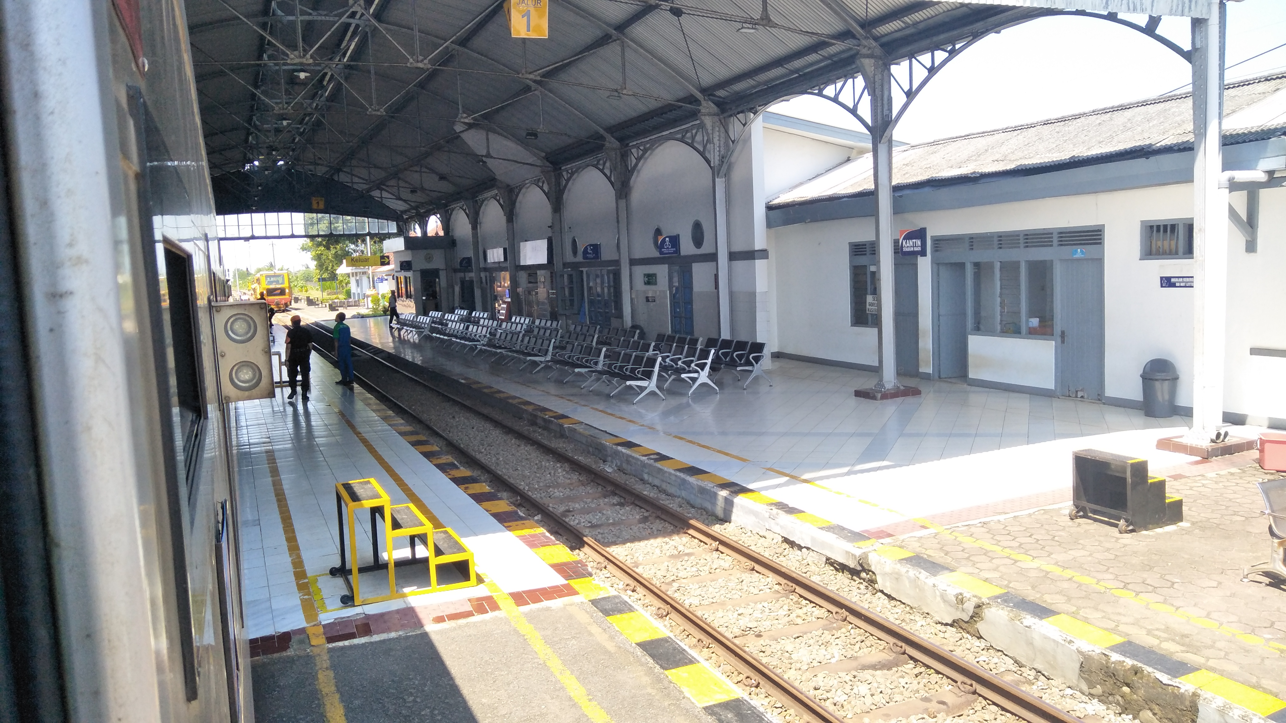 Inside of Maos railway station